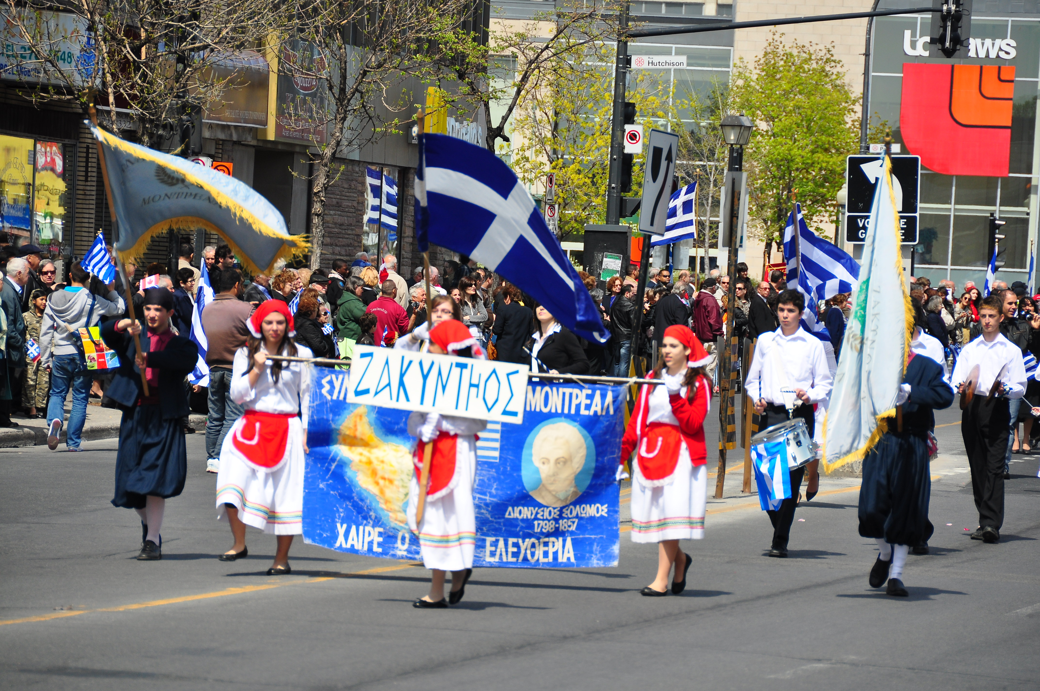 Parade commemorating Greek Independence on Jean-Talon West, near Park Avenue, in Montreal, Quebec, Canada